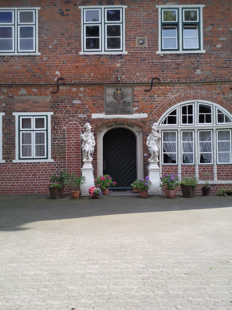 Gate of Esteburg Castle